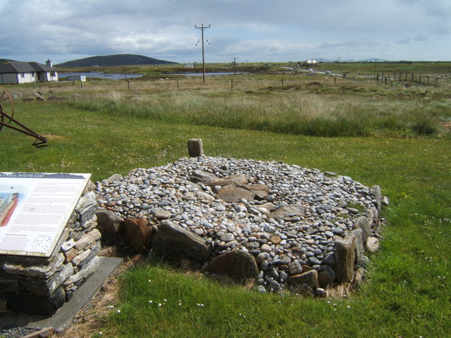 Reconstruction of Burial Cairn. The grave of a noblewoman, who has become known as "Kilpheder Kate", was found at Cille Pheadair. See 1362070.